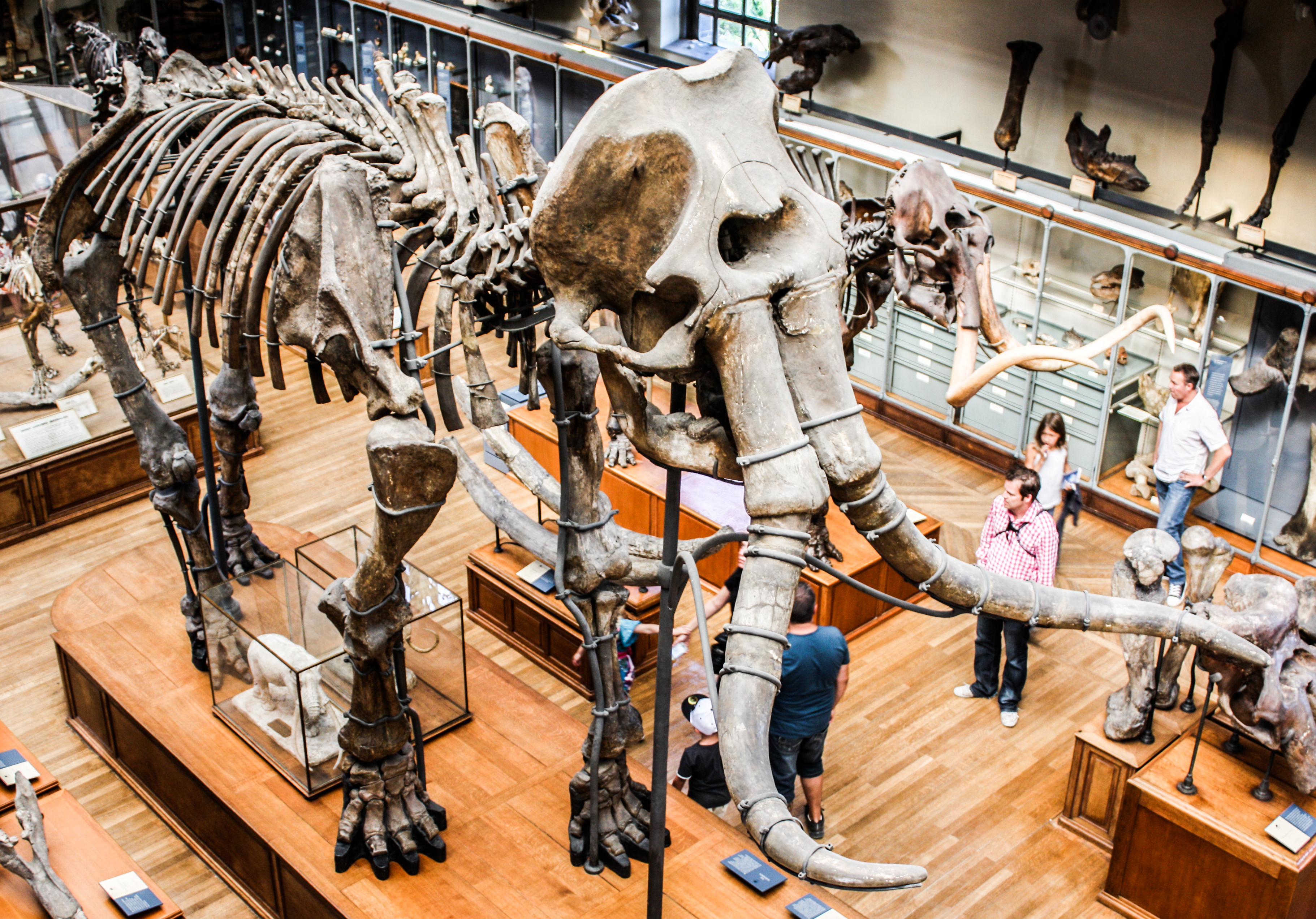 This specimen of southern mammoth (Mammuthus meridionalis) is on exhibit since 1898 at the Galerie de paléontologie et d'anatomie comparée in the French National Museum of Natural History, in Paris. Before that it was on exhibit, since the mid 1870s unil 1898, at the former galeries d'Anatomie comparée ('Comparative Anatomy Galleries'), whose building is nowadays known as le bâtiment de la baleine ('the Whale Building'). The mammoth was found in 1869 in the town of Durfort and is constituted by fully fossilised bone in rock. The town of Durfort is situated in the department of Gard, south of France, and is in the present day officially named Durfort-et-Saint-Martin-de-Sossenac.